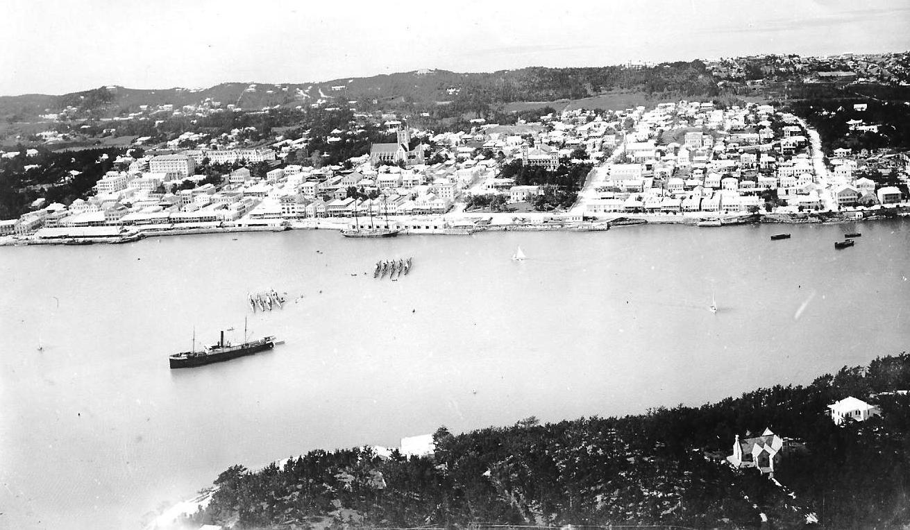 Photo scanned by contributor. Photo taken by his deceased father 1926.Photo taken AFTER c1920 first aircraft available for hire for sightseers in Bermuda and BEFORE 1923 demolition of W T James Building at corner of Front and Burnaby Streets and construction of original Butterfield Bank Building on that site.